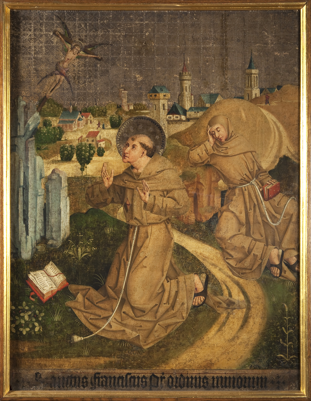 Stigmatization of Francis of Assisi, Master of the Altarpiece of the Knights of the Cross with the Red Star, National Gallery in Prague